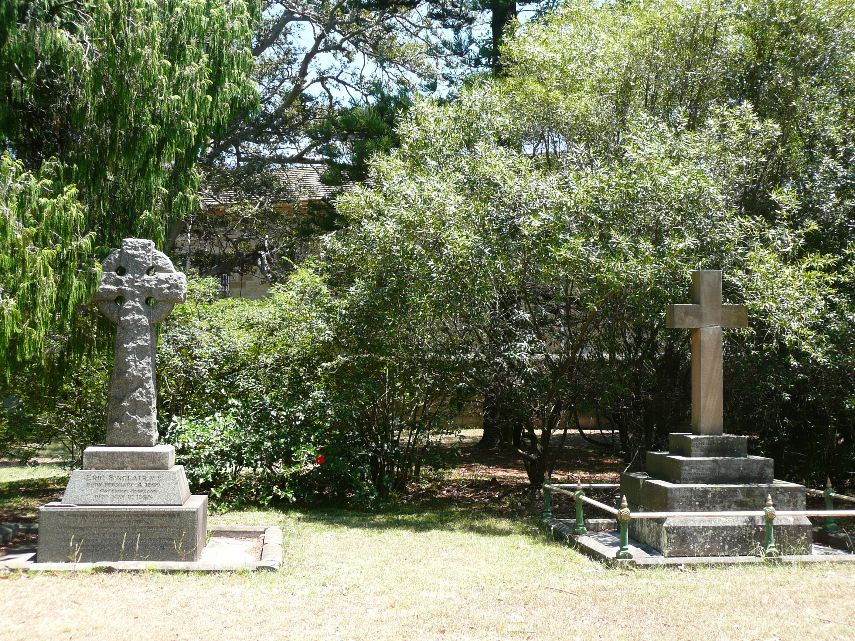 graves, sydney